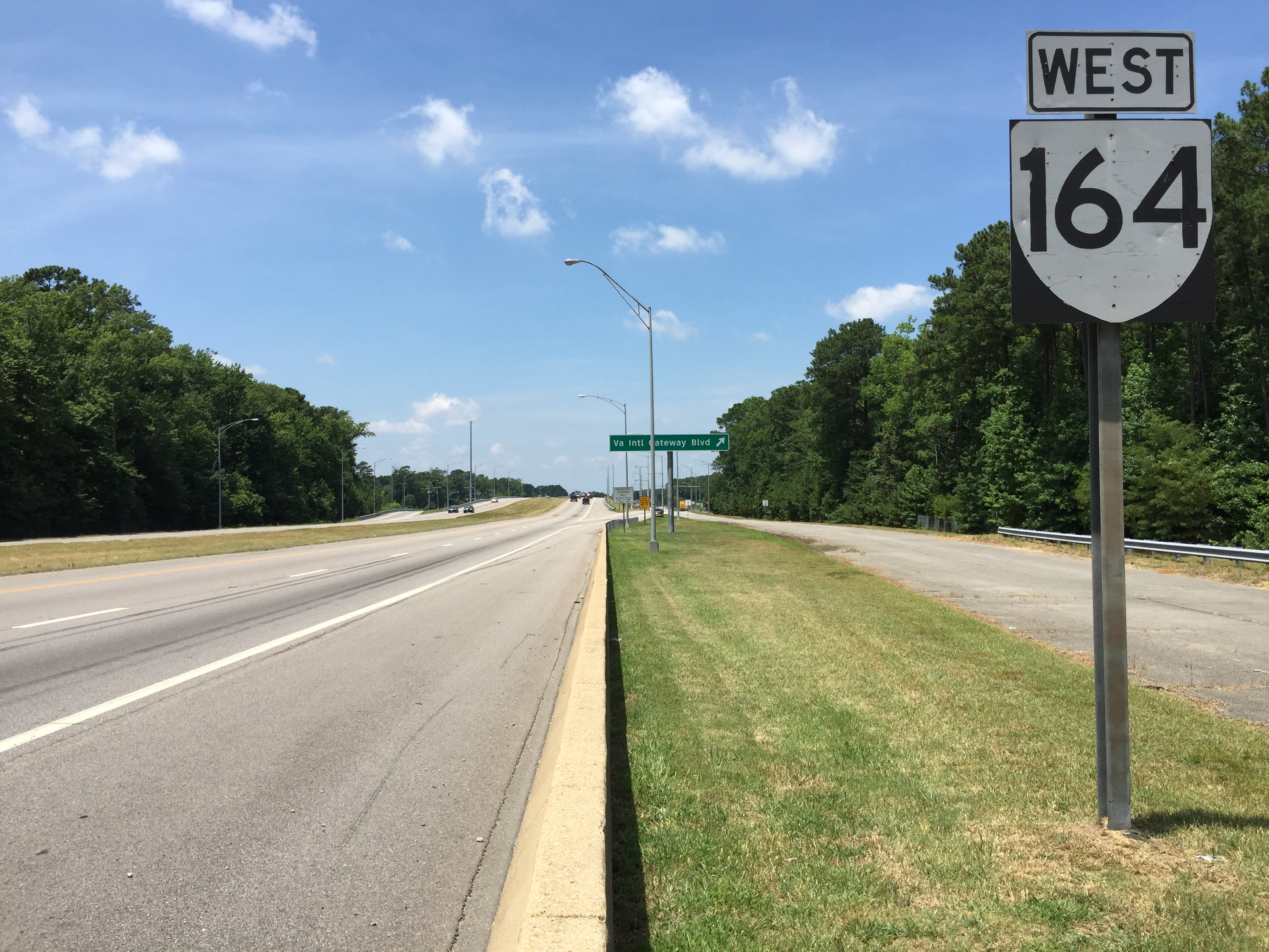 View west along Virginia State Route 164 (Western Freeway) just east of Virginia International Gateway Boulevard in Portsmouth, Virginia